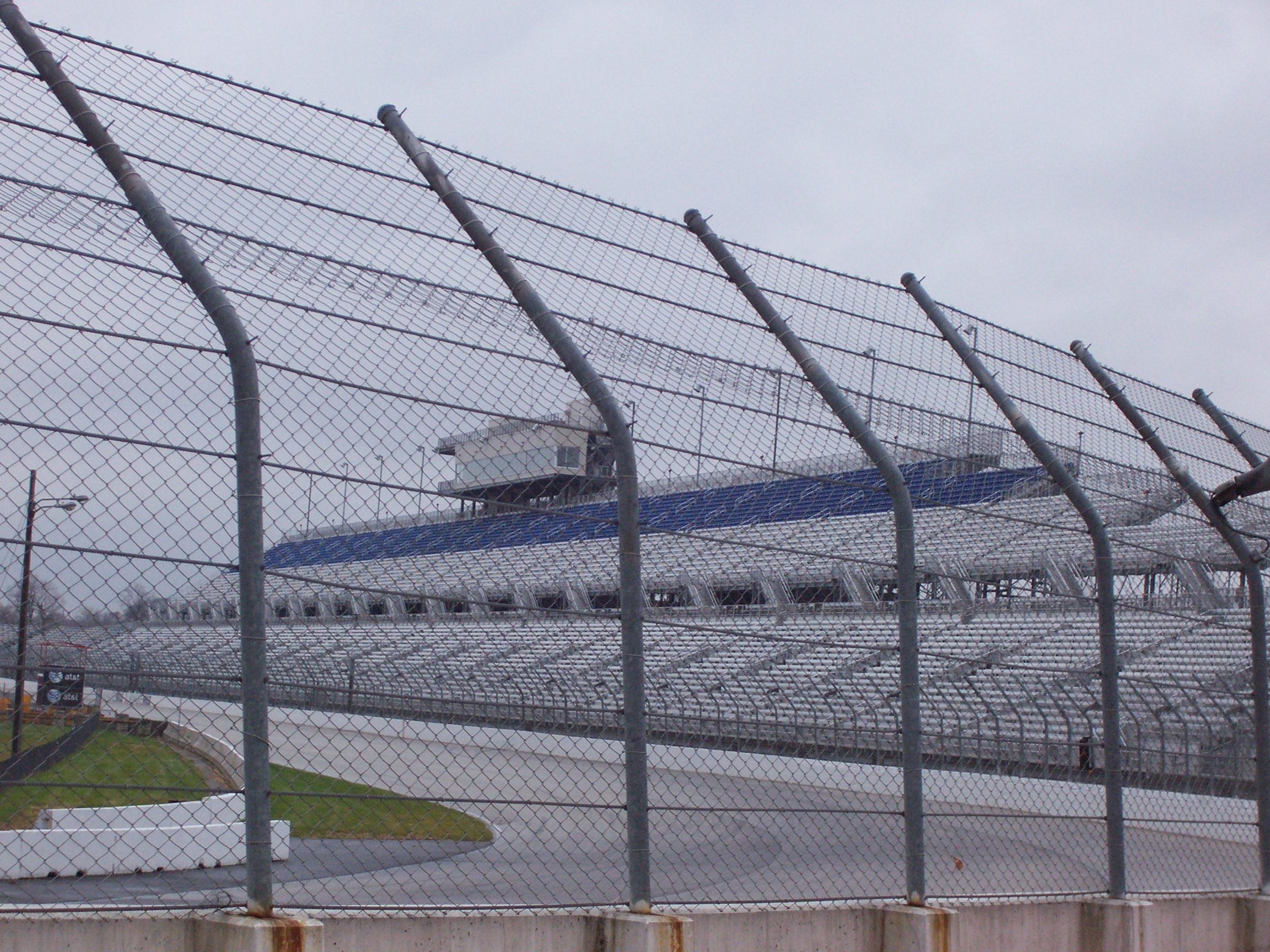 The grandstand at the Milwaukee Mile racetrack in West Allis, Wisconsin, United States.